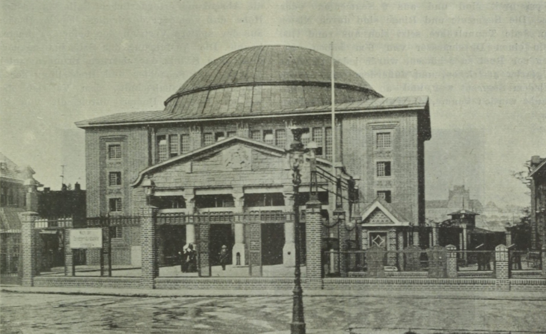 Old Elbe Tunnel, Hamburg, entrance building Steinwörder, circa 1911/12